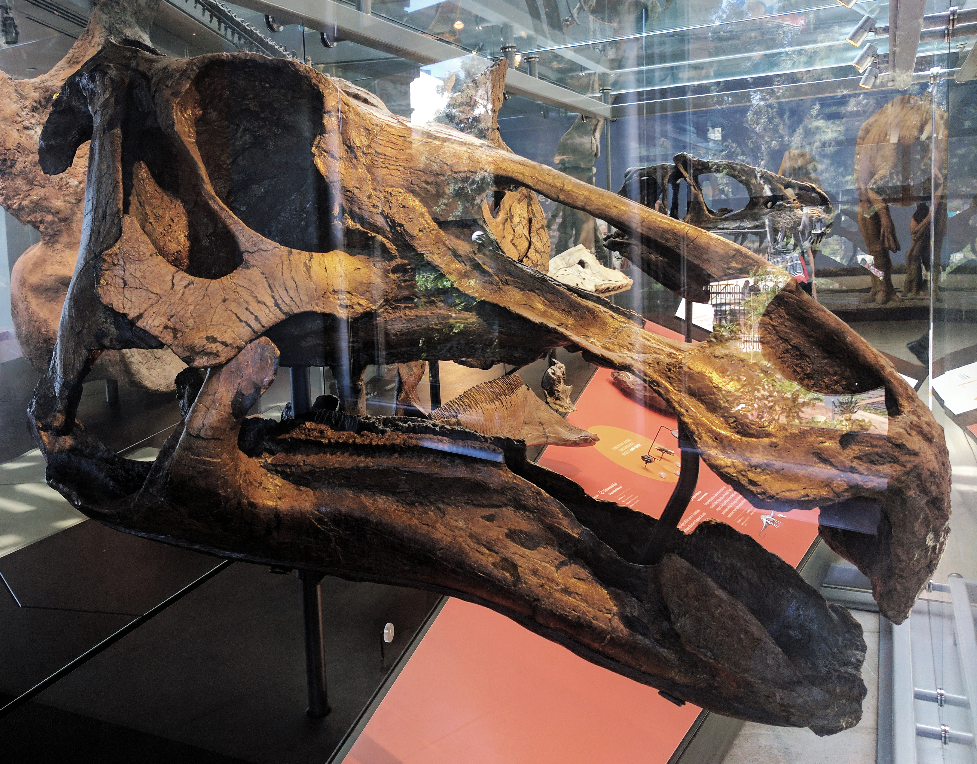 Edmontosaurus beak right